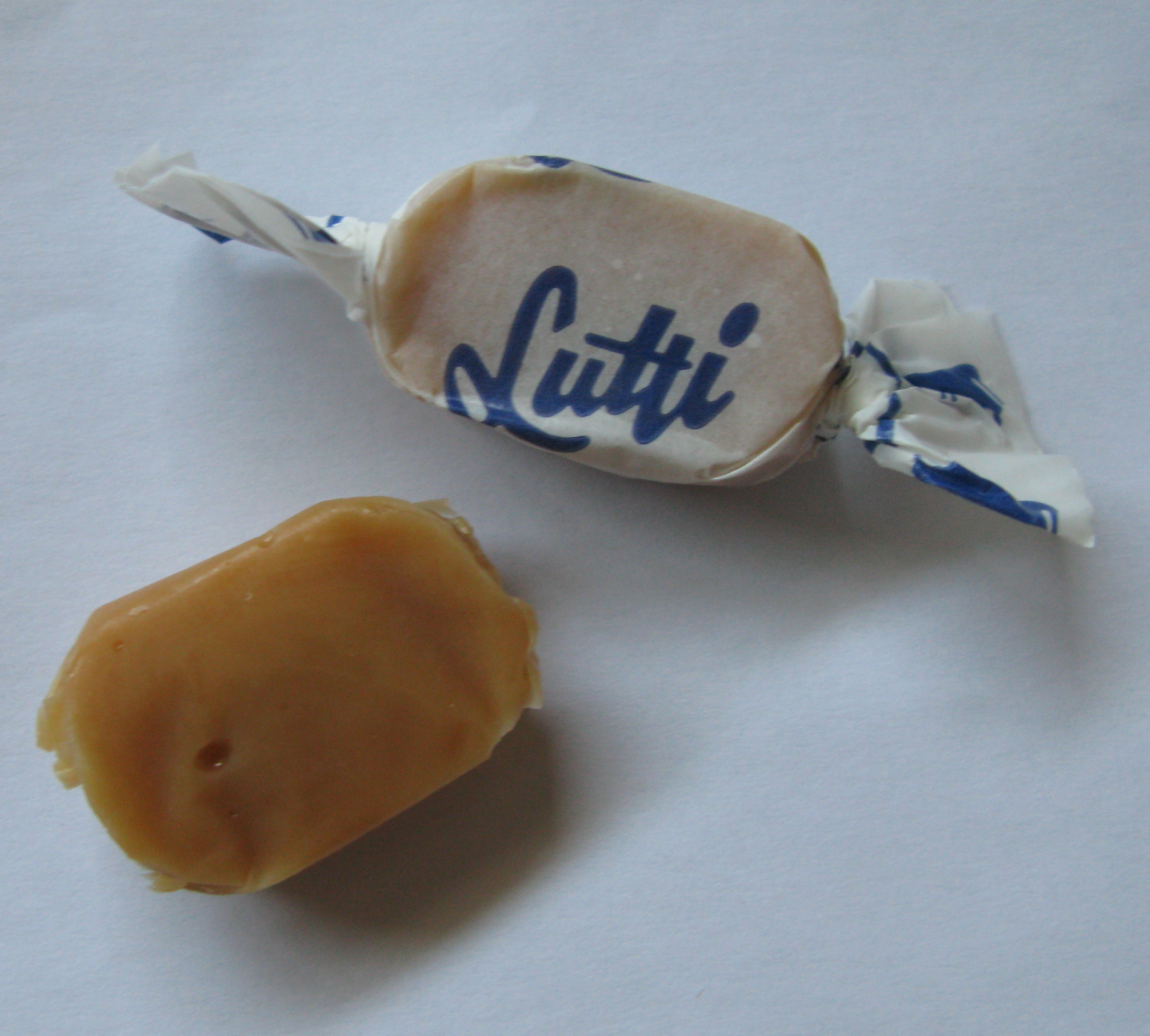 Lutti toffees.